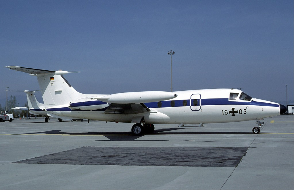 A Hansa Jet of the Luftwaffe at Basle Airport